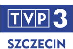 unknown logo